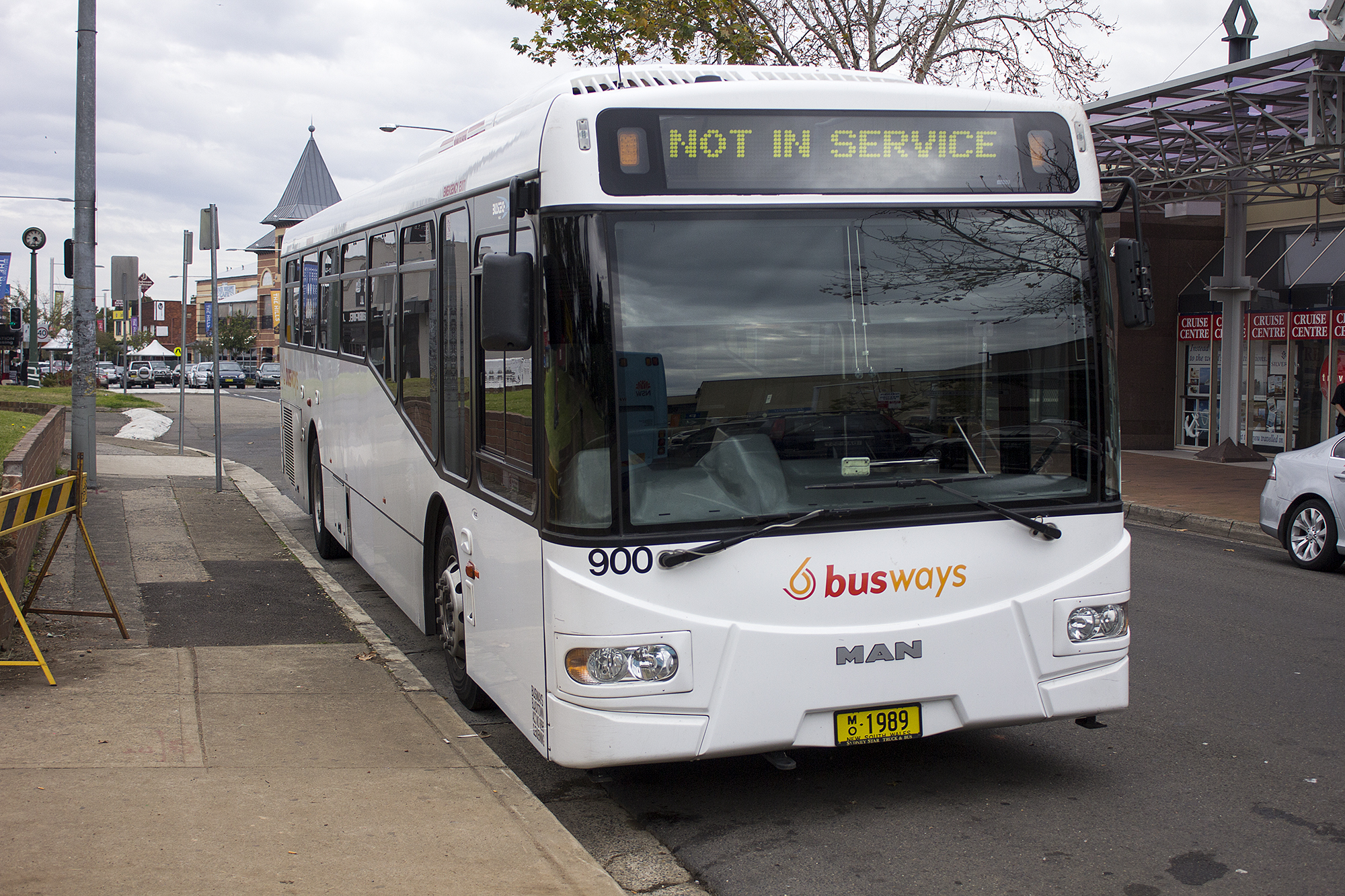 Busways (mo 1989) Bustech 'VST' bodied MAN 18.310 at Castle Hill Interchange in Castle Hill, New South Wales.